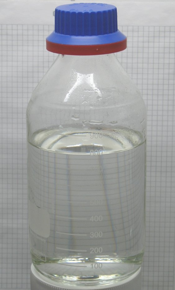 30% hydrochloric acid